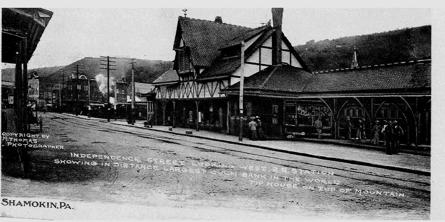 View of the Reading Railroad Depot, Shamokin, Pennsylvania.